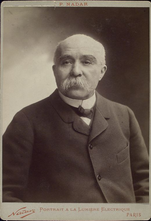 French politician and prime minister, Georges Clemenceau Georges Clemenceau, político francés, primer ministro.